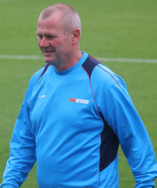 Alan Dowson managing Hampton & Richmond Borough in July 2017.